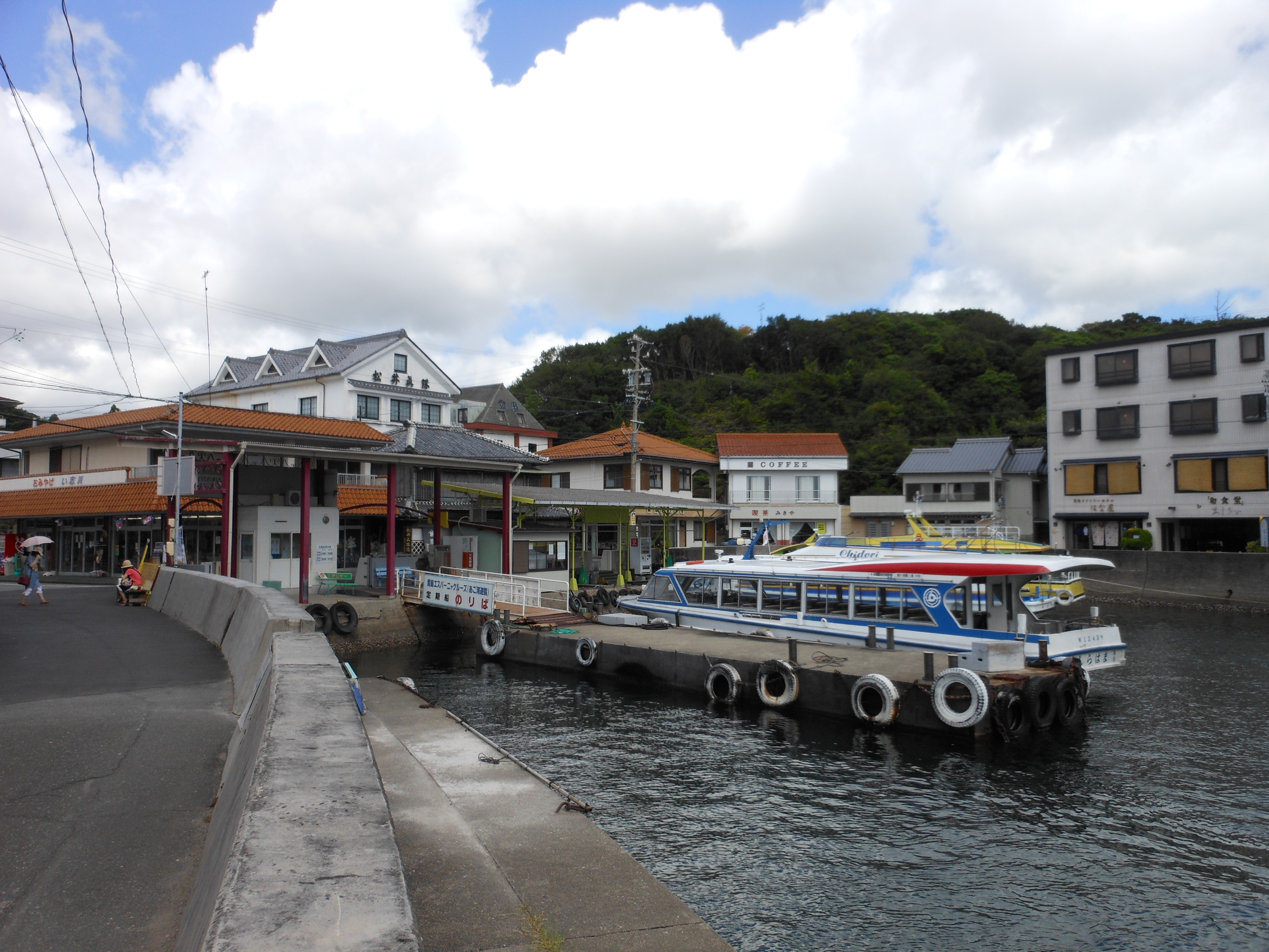 This is a port in Japan.